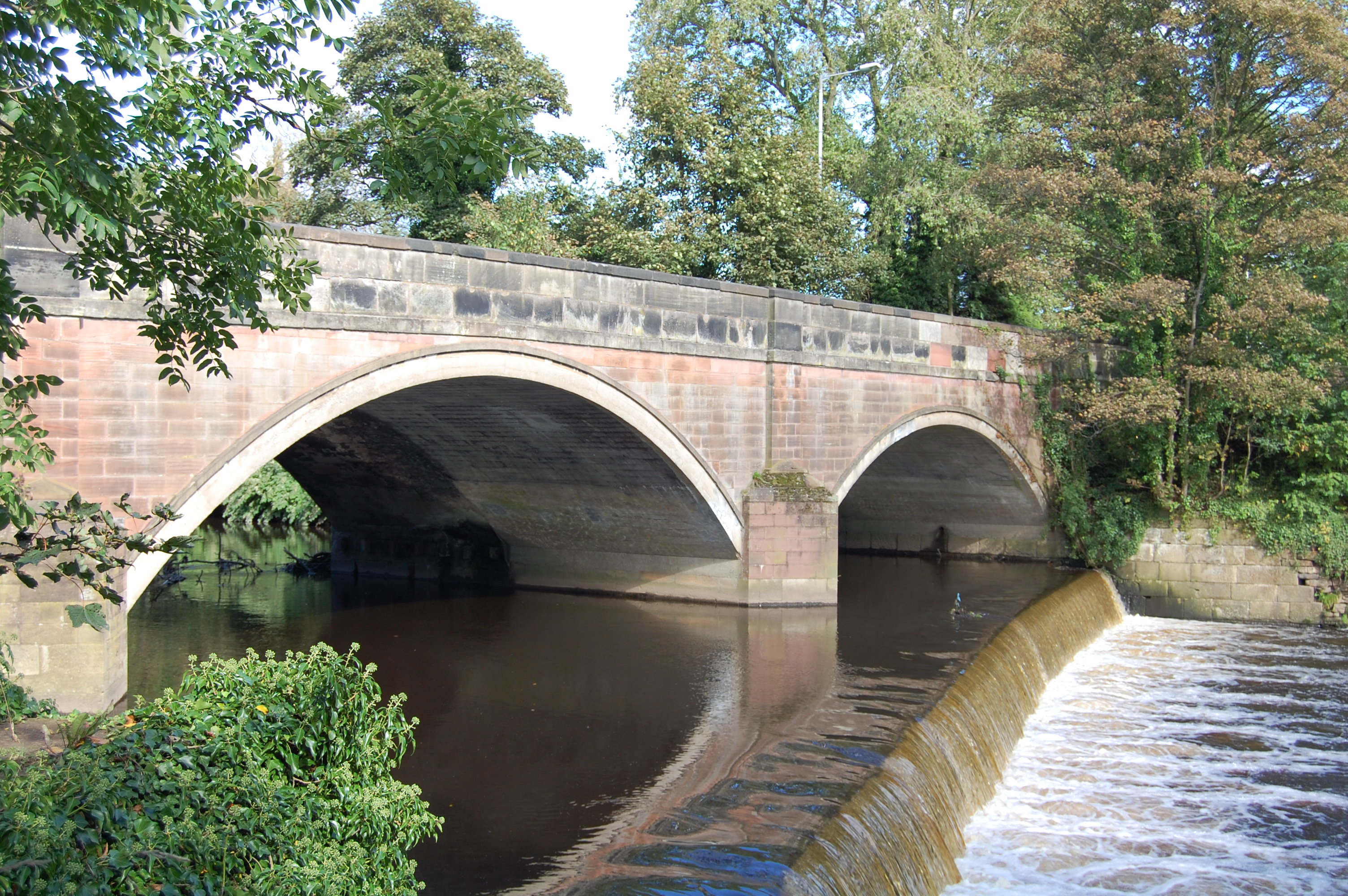 Photograph of Otterspool Bridge over the River Goyt between Romiley and Marple, Greater Manchester, England. The weir at Otterspool was intended to provide water power for an industrial estate along the banks of the River Goyt